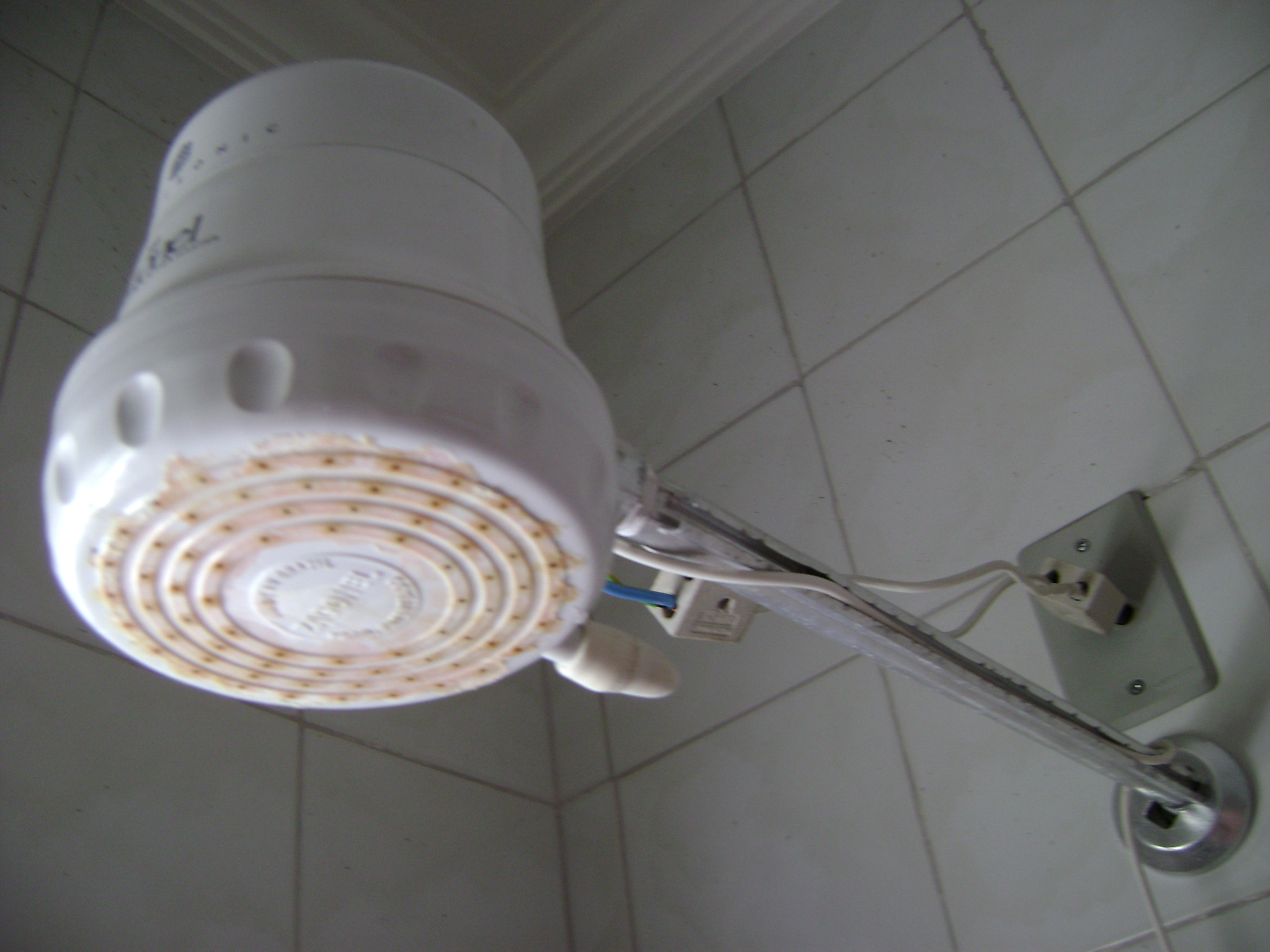 Shower with a very dangerous way of wiring. Since the bathroom is a wet room, all connections should be placed inside hermetically sealed non-conductive enclosures. As in this device the electrical connections are exposed, it is very easy to get an electrical shock.